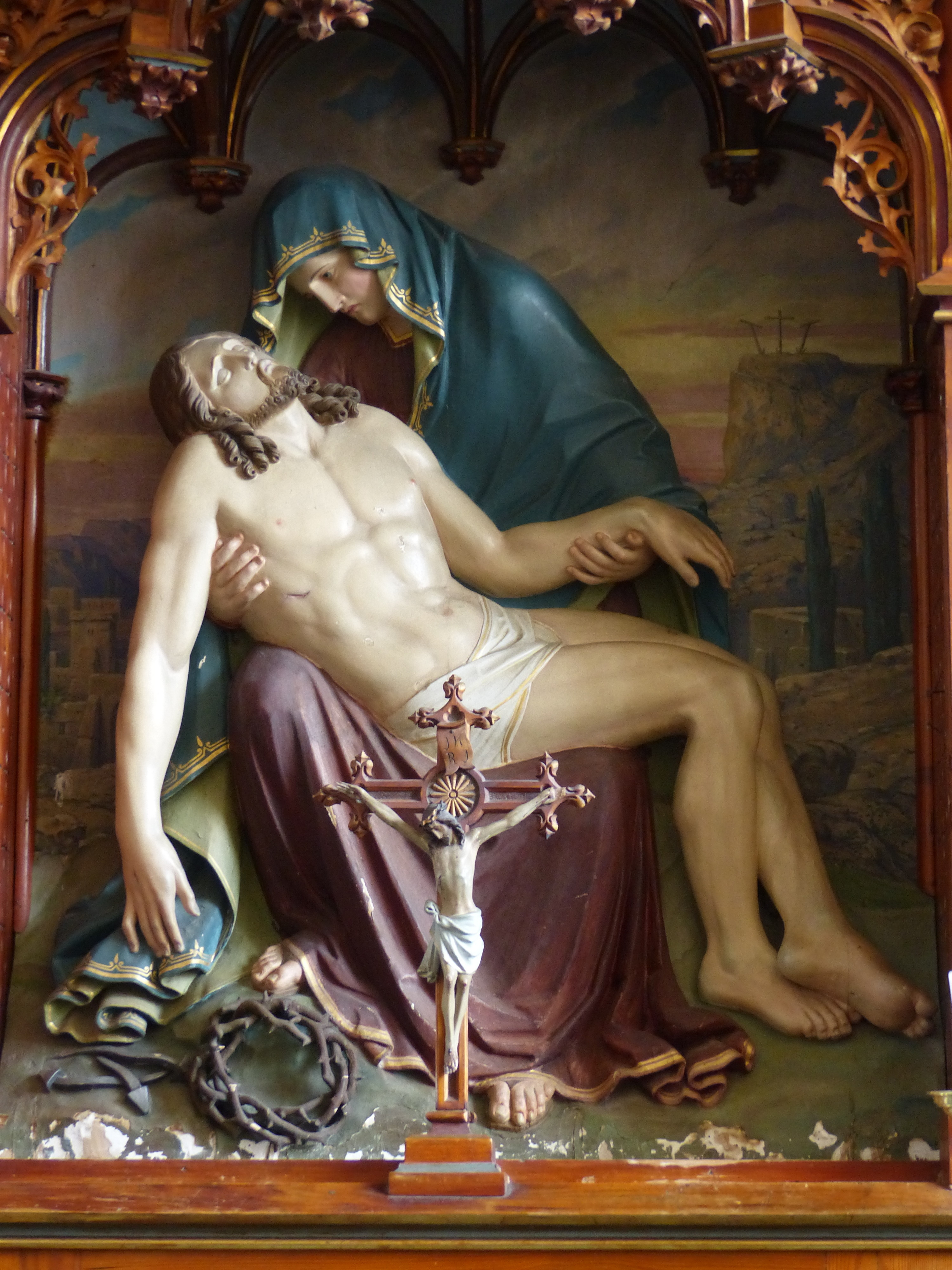 Oberneukirchen ( Upper Austria ). Saint James the Greater parish church - Gothic revival altar ( 1903 ) with Pietá by Simon Raweder: Pietá by Joseph Sattler.